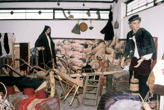 Traditional agricultural implements, image from the Macedonian Folklore Museum, Goumenissa, Central Macedonia, Greece